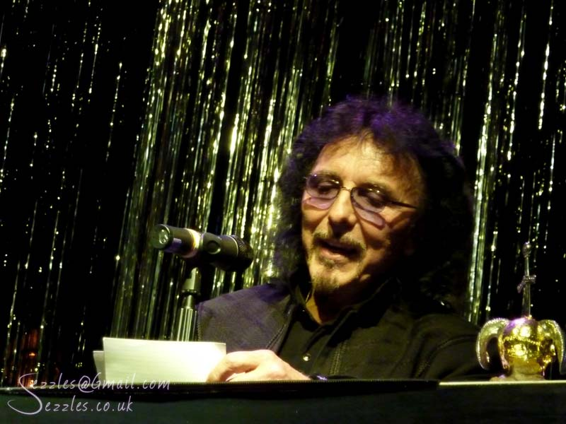 Tony Iommi black sabbath